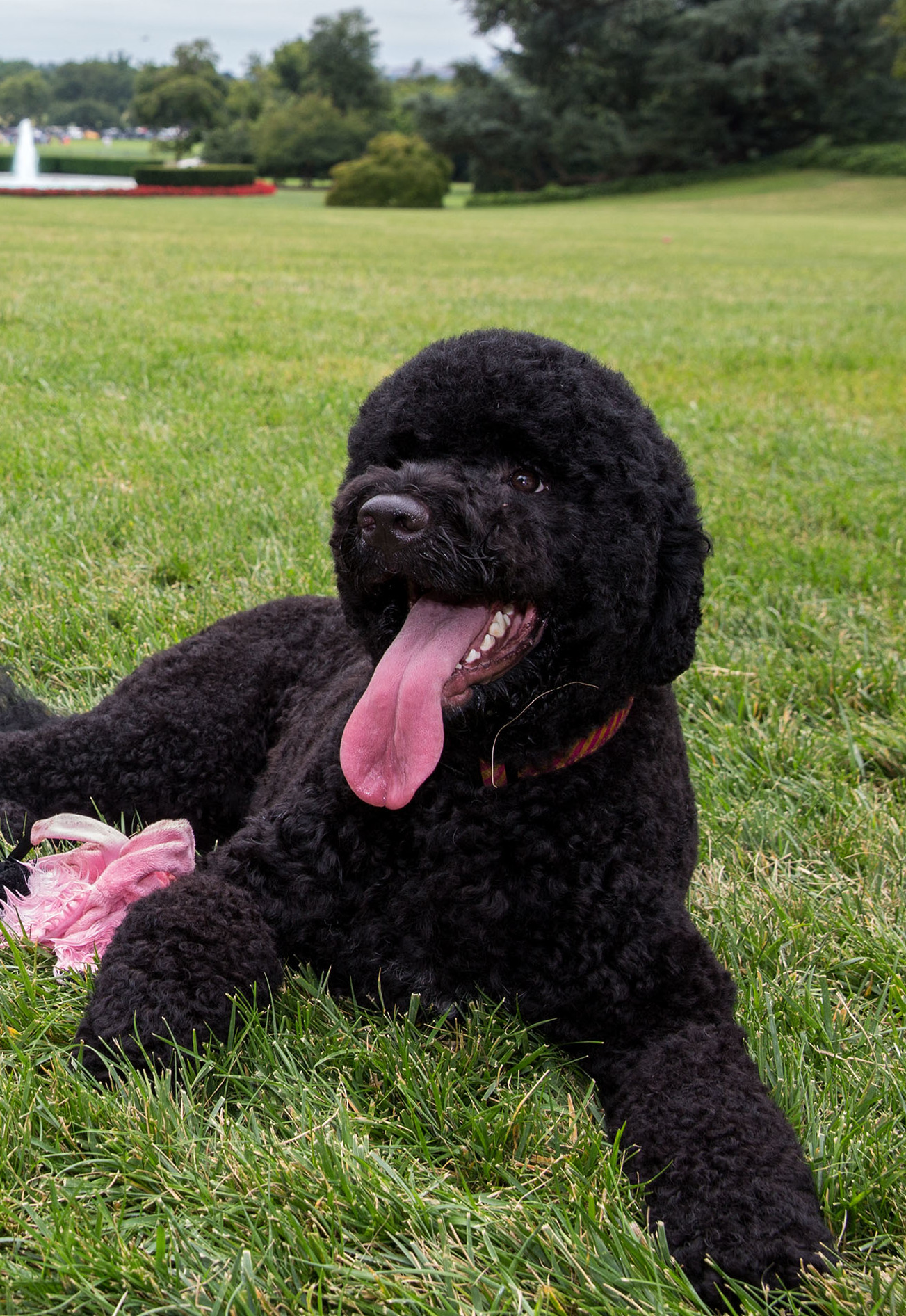 Bo, left, and Sunny, the Obama family dogs, on the South Lawn of the White House, Aug. 19, 2013. (Official White House Photo by Pete Souza)